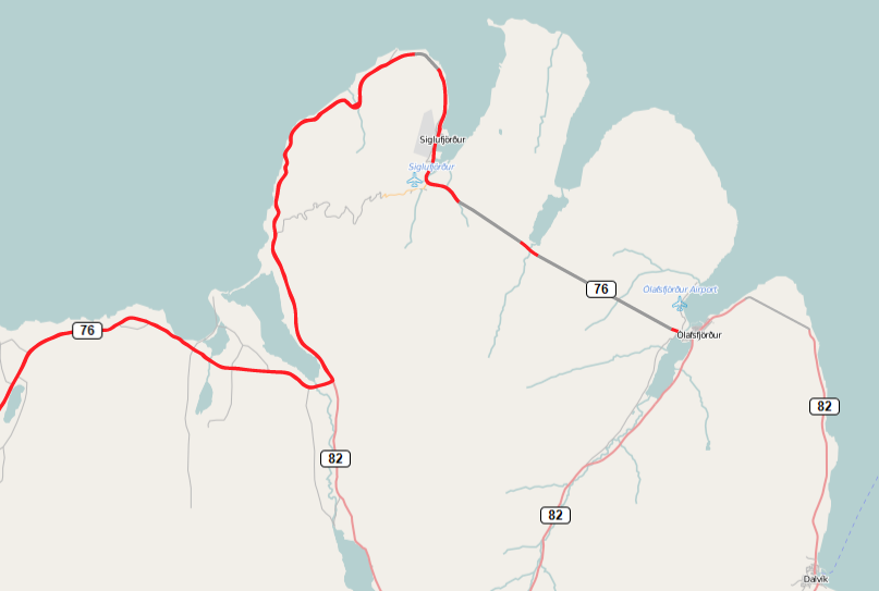 This map show the northern half of Route 76 in Iceland marked in red, with tunnels marked in grey. This map may be incomplete, and may contain errors.